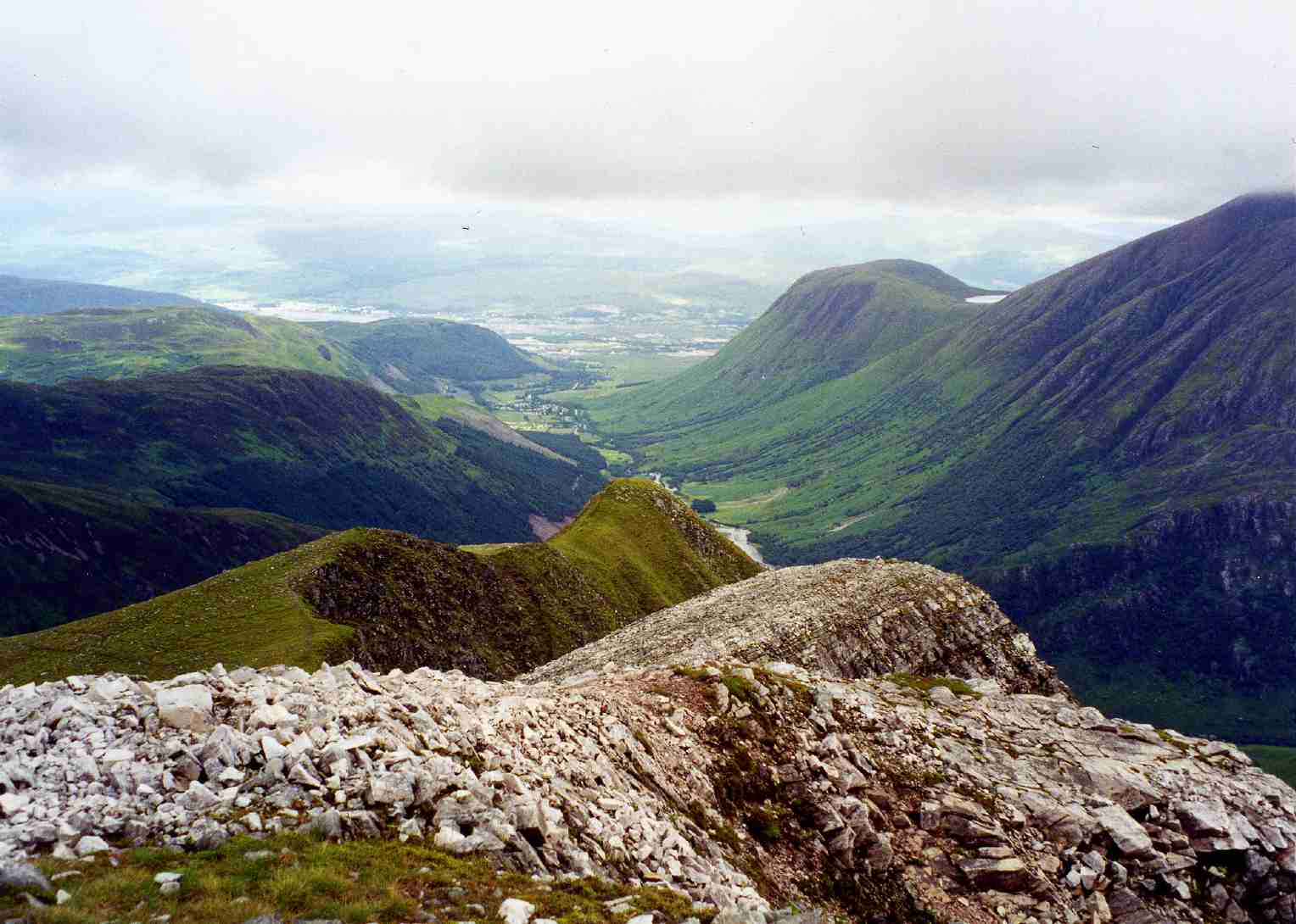 Stob Bàn and its north eastern face seen from Sgurr a' Mhàim 2.5 km to the NE. Personal photograph taken by Mick Knapton